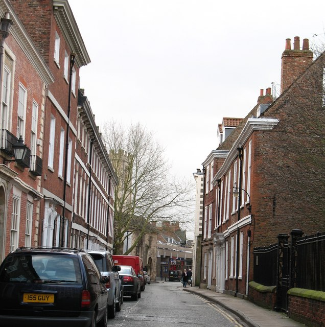 St Saviourgate A street of fine 18th century houses, an old church and two interesting chapels. Only the concrete monstrosity of the Stonebow car park at the far end detracts from the scene. The houses on the left are mainly of the 1740s and 1760s.